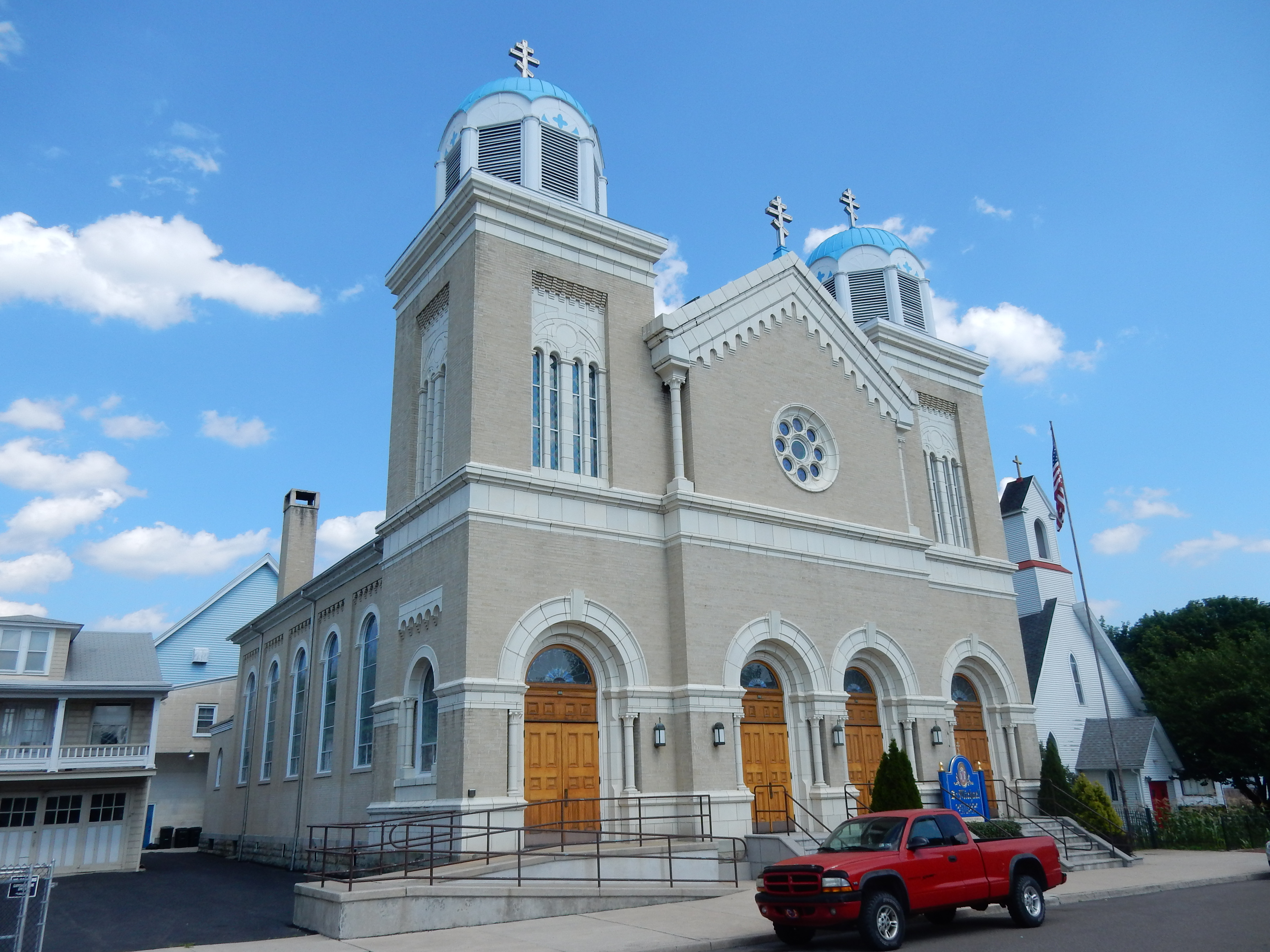 St. Michael Orthodox Church,106 N. Morris St., St. Clair, Schuylkill County, Pennsylvania.